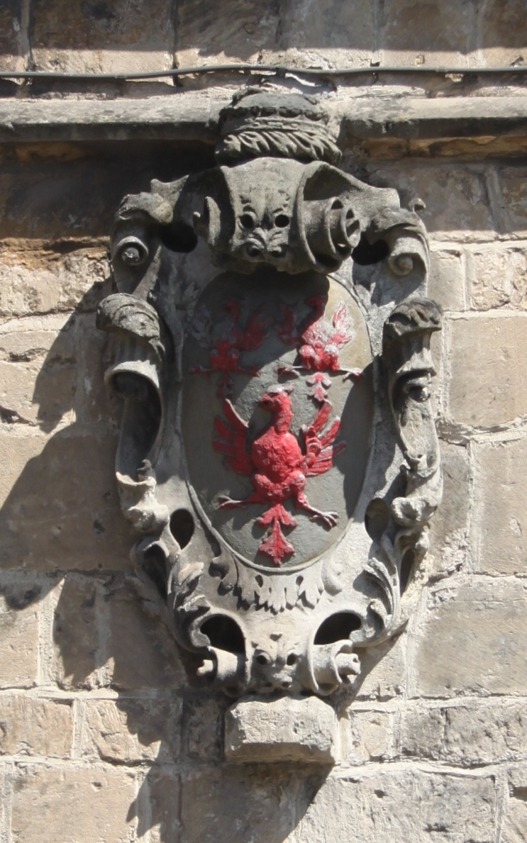 Cartouche of the arms of Lady Anna Bridges (nee Rodney). On the exterior wall of Bridges Almshouses, Keynsham